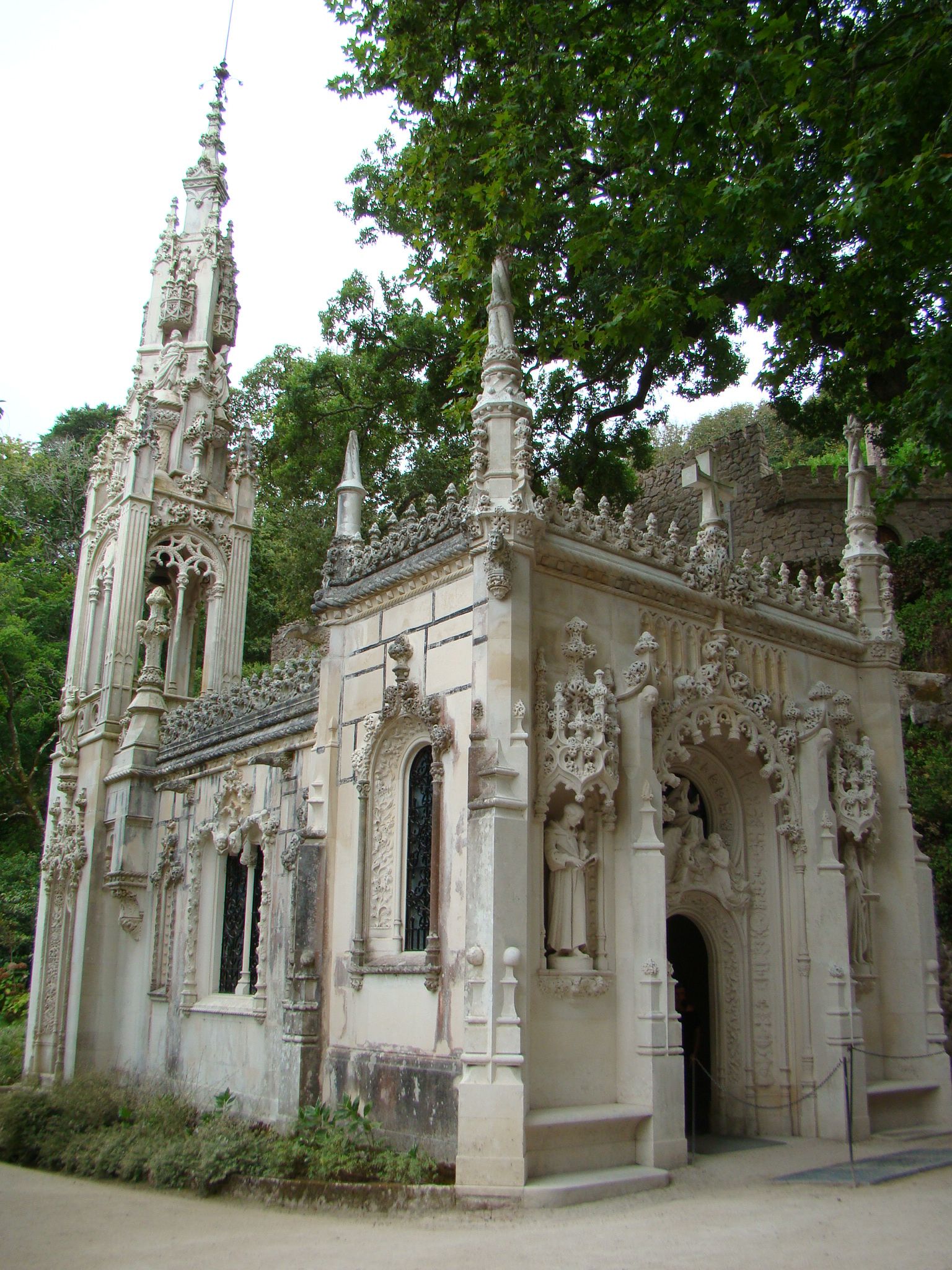 Chapel of Regaleira Palcae